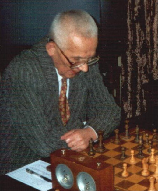 FM Witold Baclerowski, march 2001.